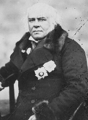 Lord Elgin, 1860.